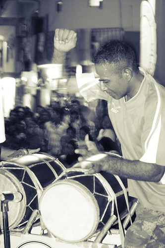 A drummer playing the boduberu while people watch in the background